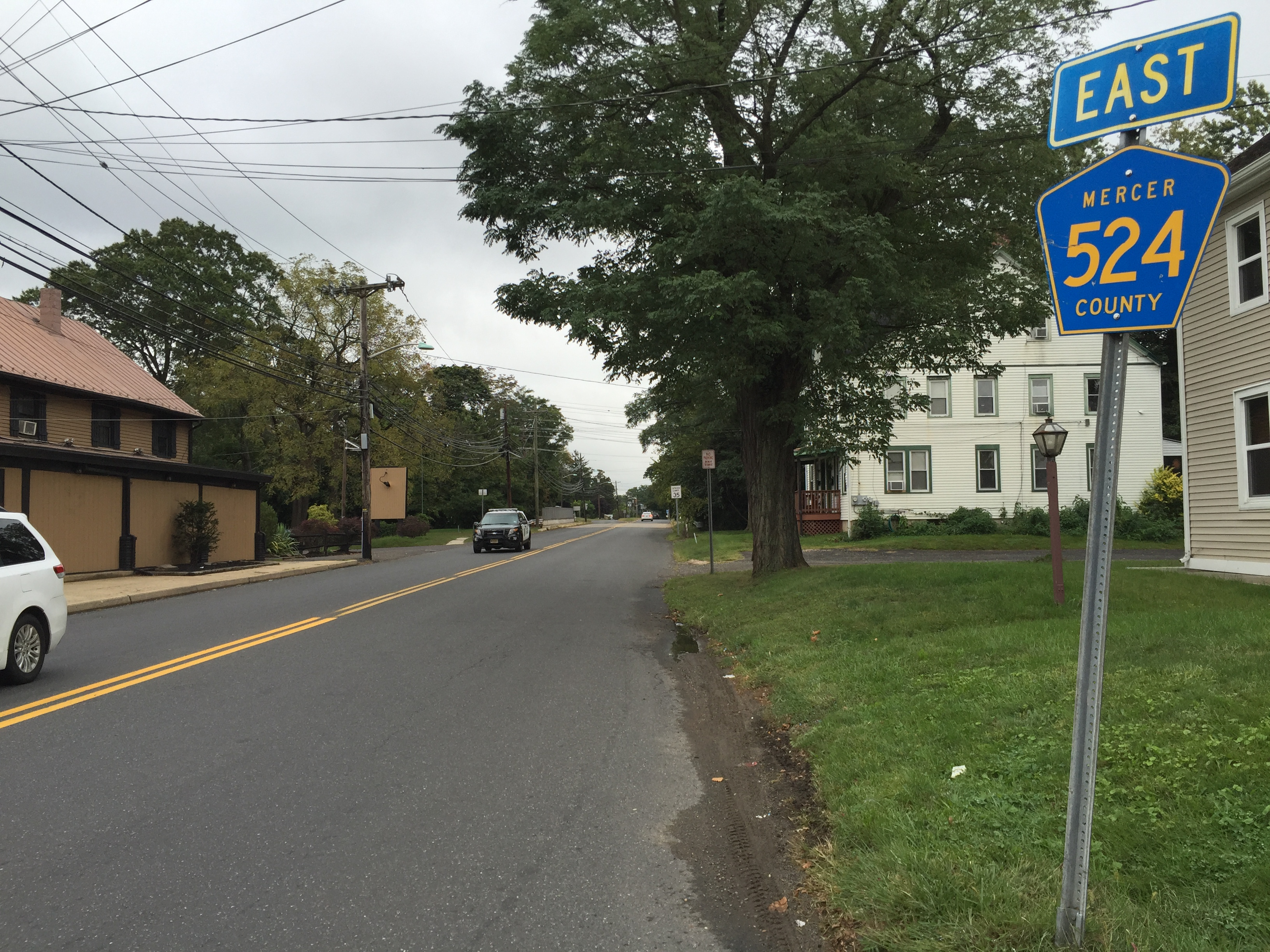 View east along Yardville-Allentown Road (Mercer County Route 524) at New Jersey State Route 156 (Bordentown Road) in Hamilton Township, Mercer County, New Jersey